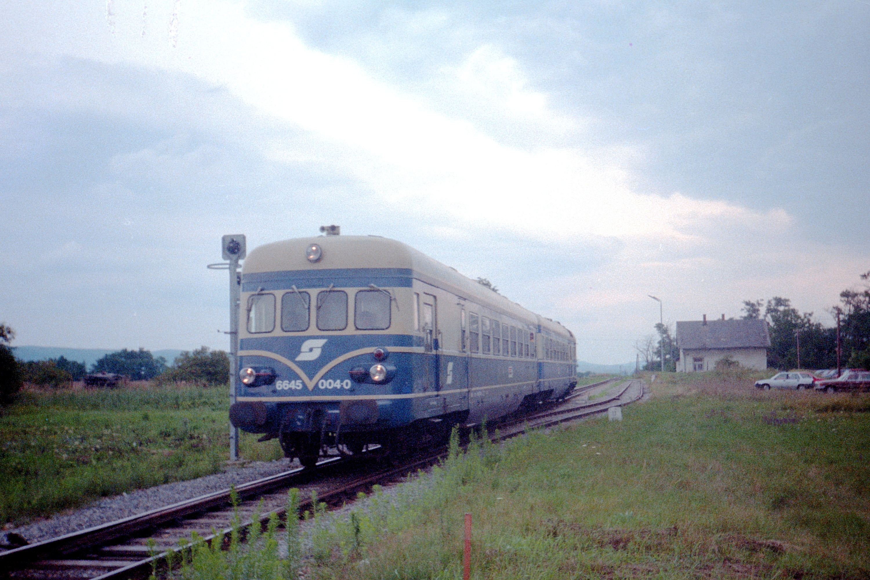 ÖBB 5145 003-9 (steering unit 6645 004-0 leading) leaving the 1988 closed Oggau halt heading for Neusiedl am See.